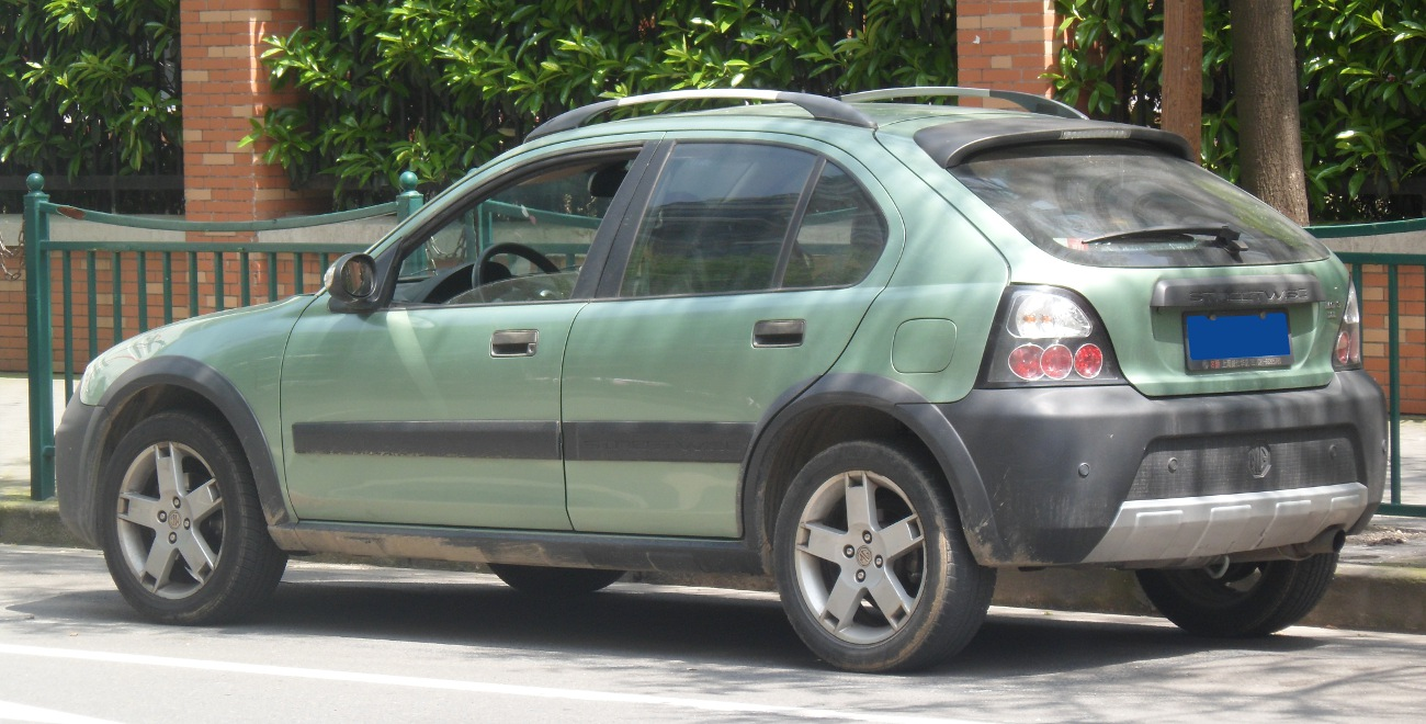 MG 3 photographed in Shanghai, China.